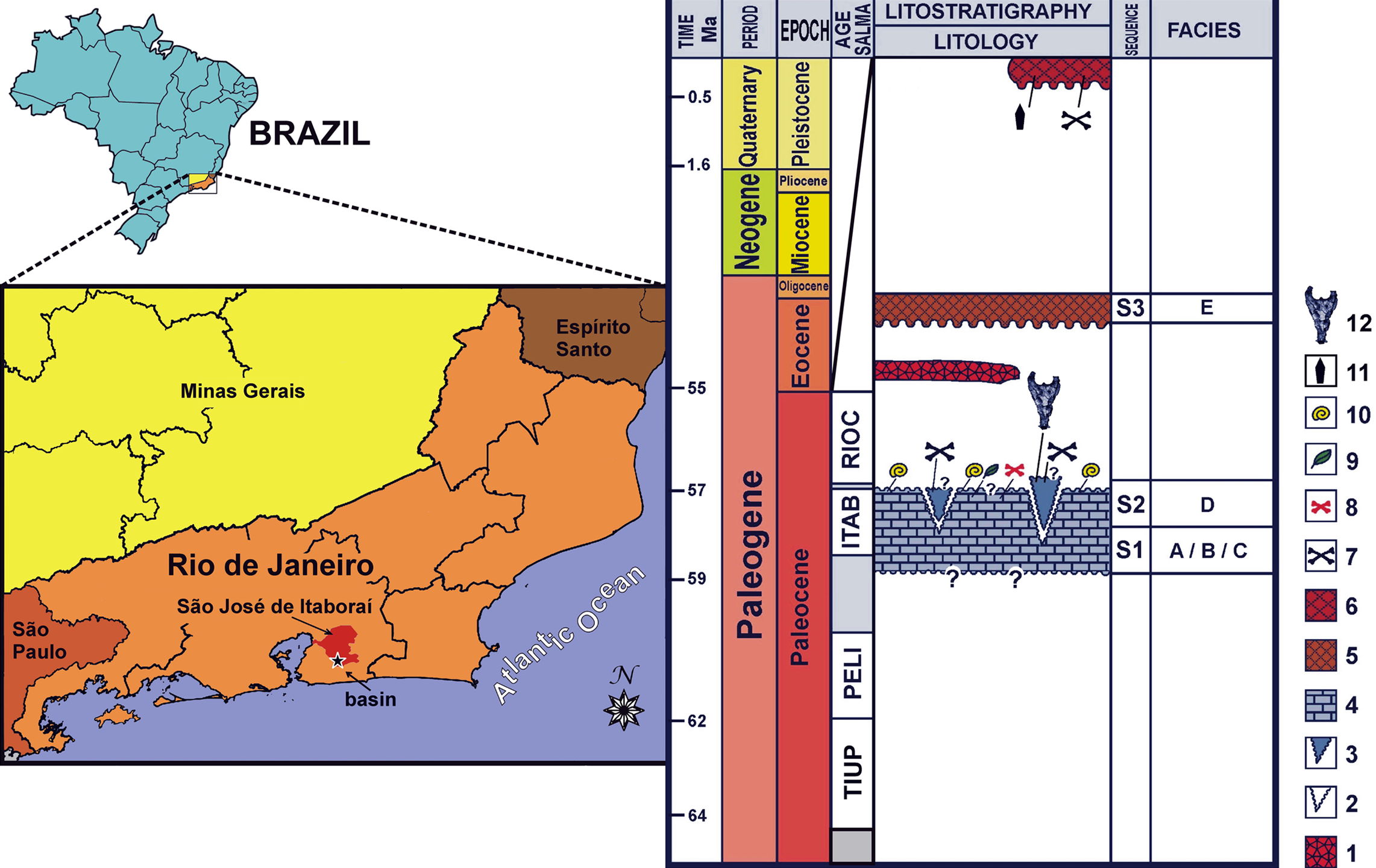 Itaboraí Basin location (A); (B) Itaboraí Basin lithochronoestratigraphic column. 1, ankaramite layer; 2, karst channels and fissures; 3, infilling fissures (Sequence S2, Facies D); 4, main calcareous deposit (Sequence S1, Facies A, B and C); 5, alluvial deposits (Sequence S3, Facies E); 6, clastic sediments; 7, abundant vertebrate fossils; 8, rare vertebrate fossils; 9, plant remains; 10, terrestrial gastropod fossils; 11, archaeological artifacts; 12, Sahitysuchus fluminensis gen. et sp. nov. (MCT 1730-R). Stratigraphic column modified after [12], [21].